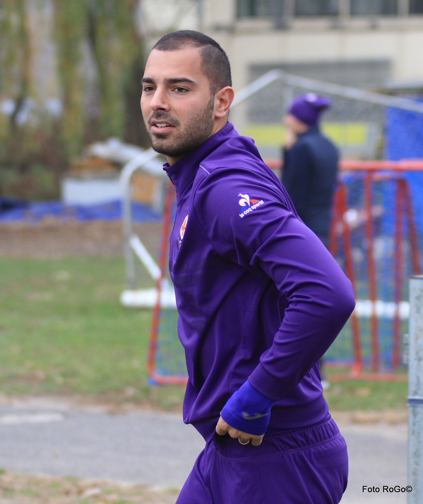 Luigi Sepe in training with Fiorentina in 2015